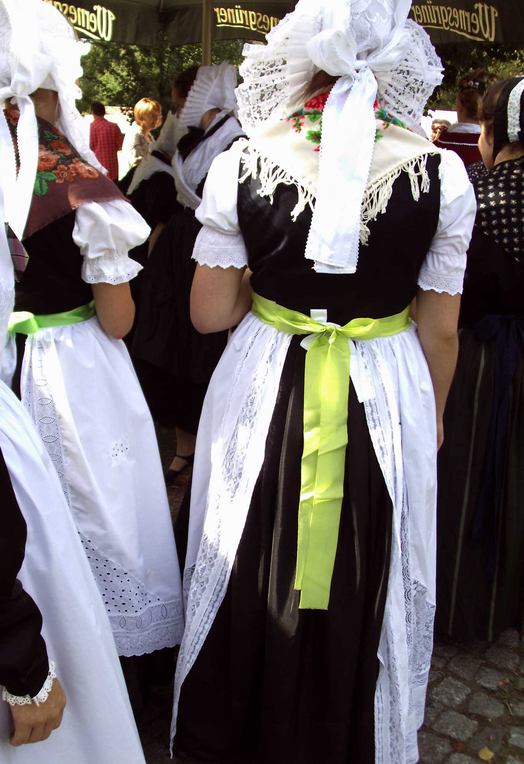 traditional church-going costume of unmarried Sorbian around Bautzen